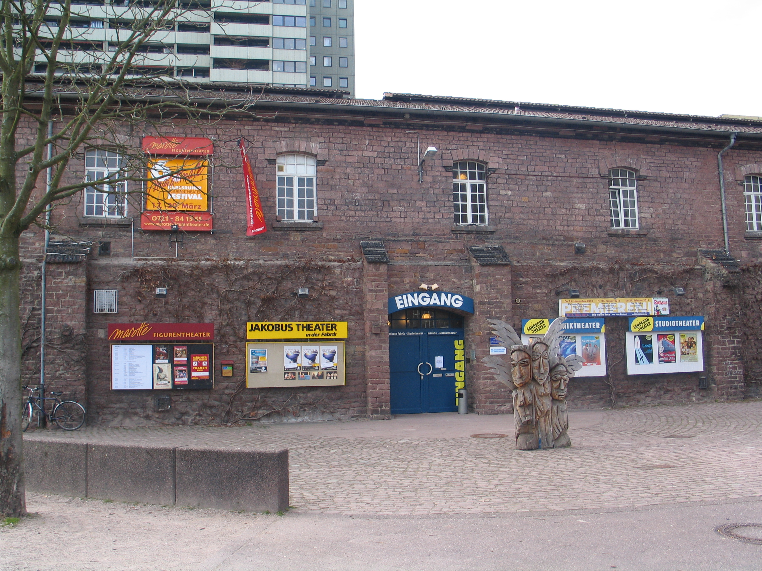 Sandkorn theatre in Karlsruhe